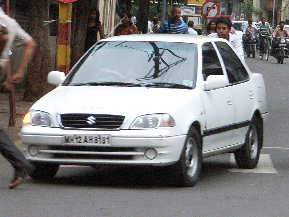 Maruti Esteem (facelift model) in Pune